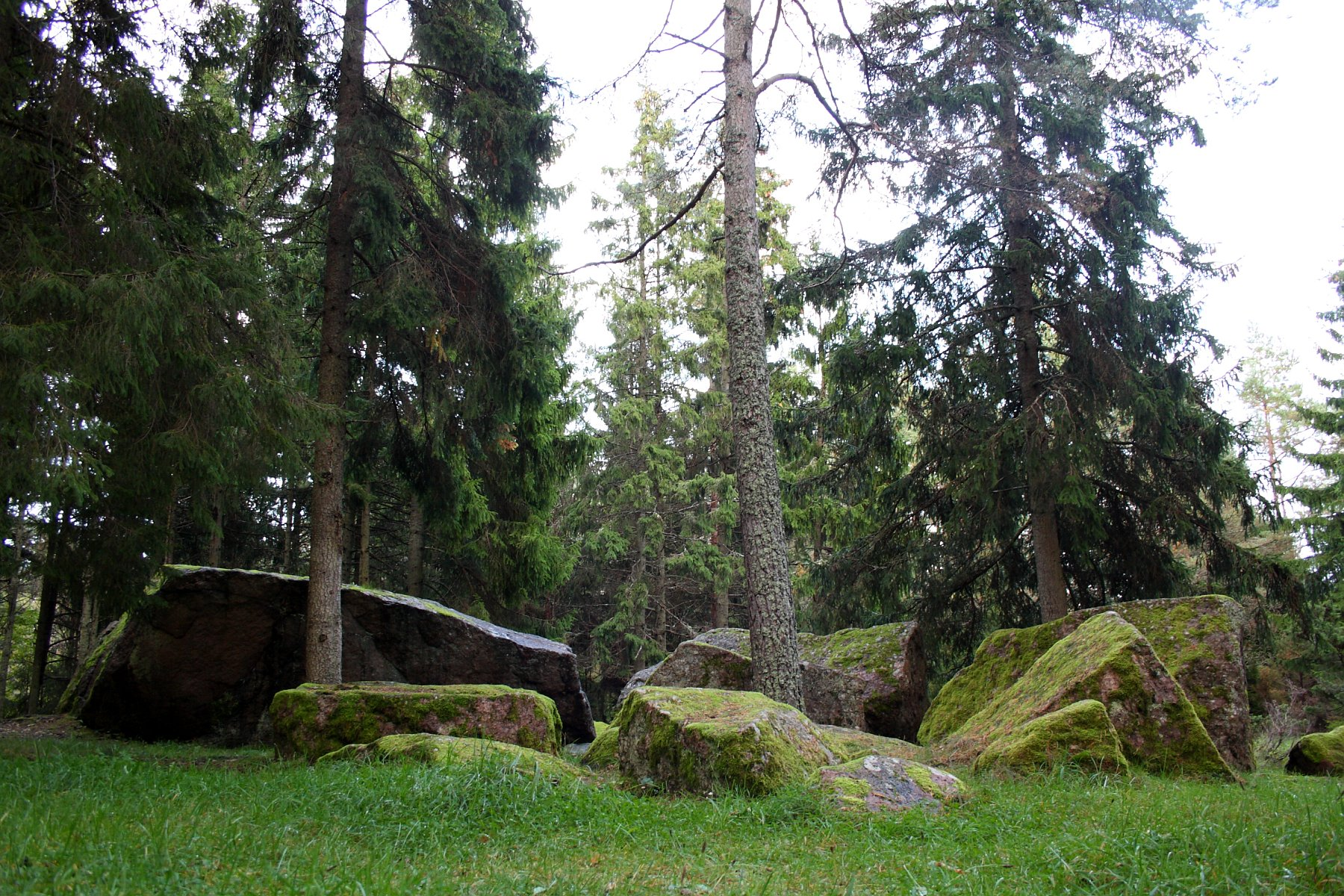 Helmersen boulder field in Estonia, island Hiiumaa, Pühalepa county